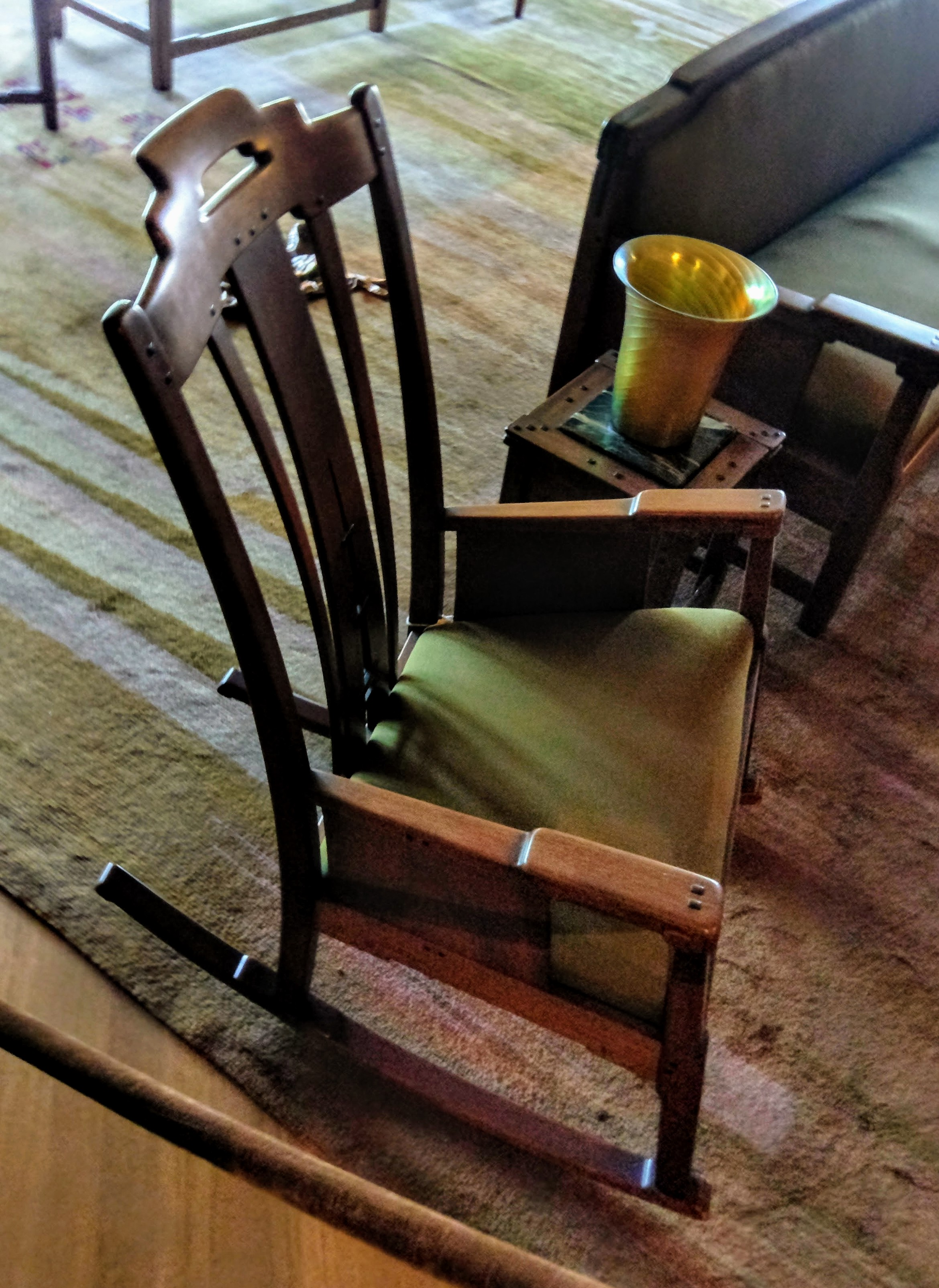 A rocking chair by Greene and Greene at the Gamble House in Pasadena, California. Photo by Jim Heaphy.